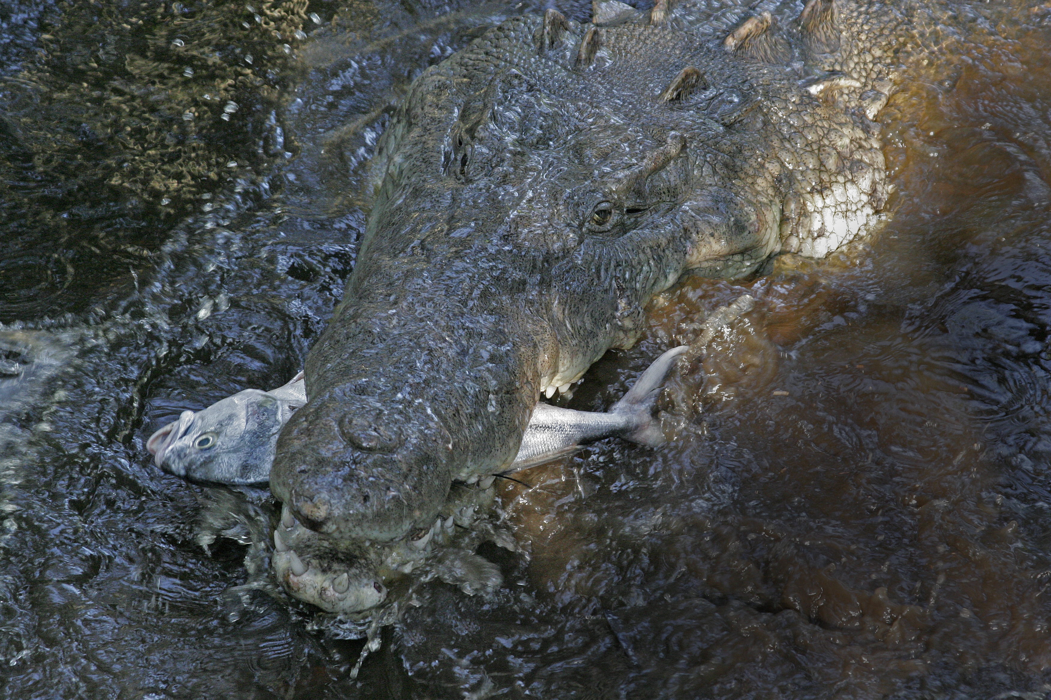 American crocodile, or Crocodylus acutus in La Manzanilla, Jalisco, Mexico